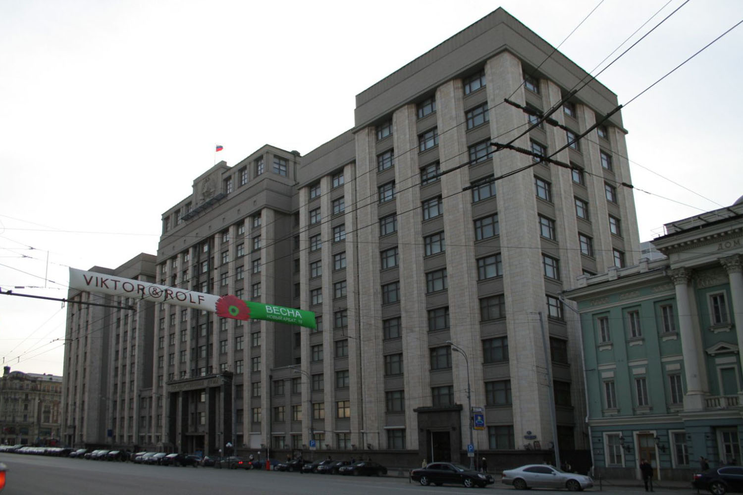 Building of Russian state Duma. Moscow, Okhotny Ryad, 1.